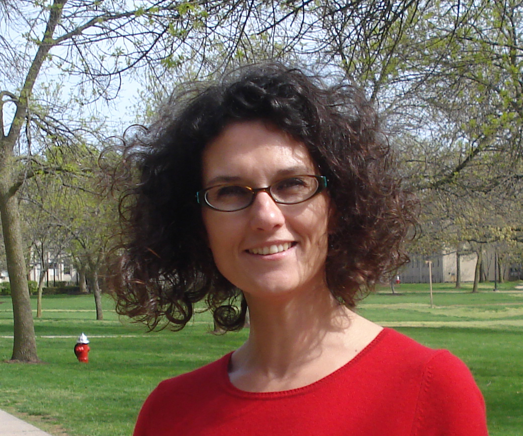 Kathryn Uhrich at Busch Campus, Piscataway New Jersey, April 2008